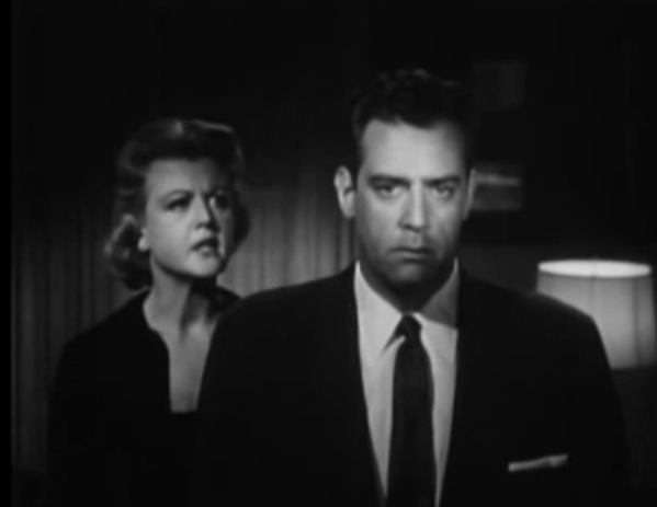 Cropped screenshot of Angela Lansbury and Raymond Burr from the film Please Murder Me.